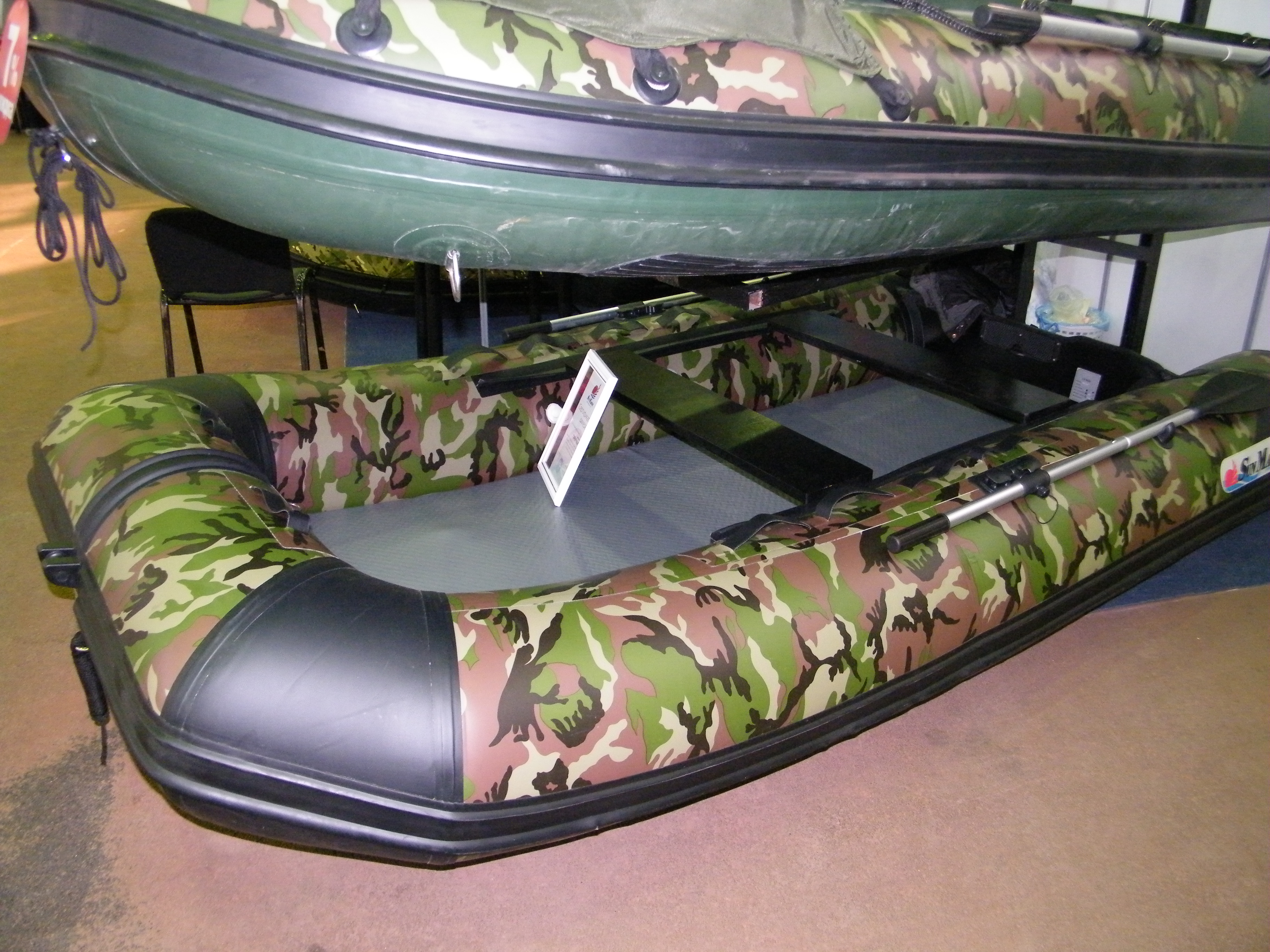 Motorboats in Russia